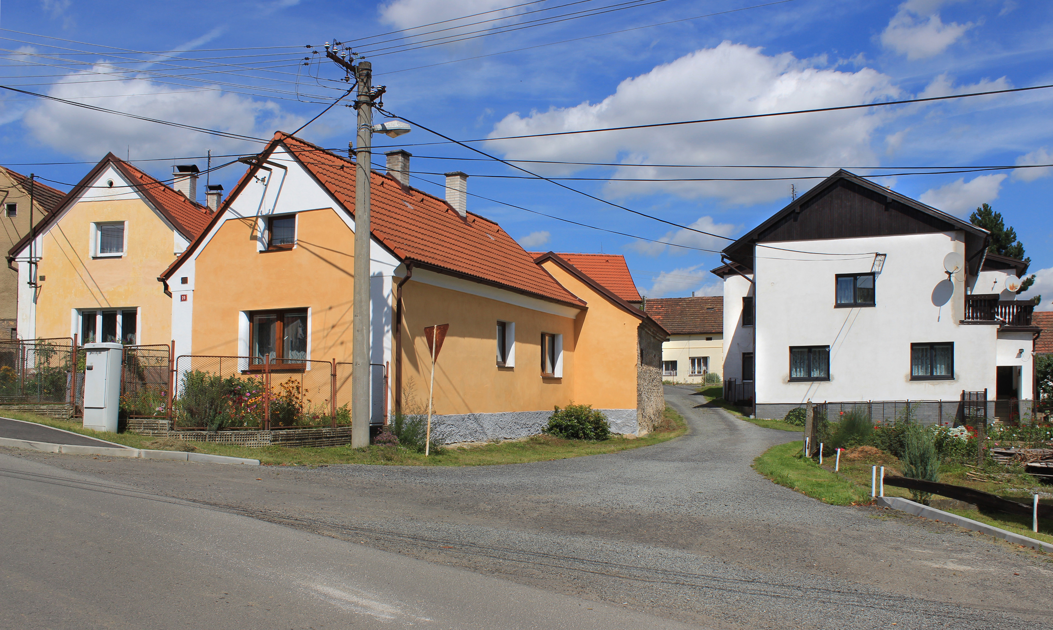 House No. 29 in Horní Kamenice, Czech Republic.